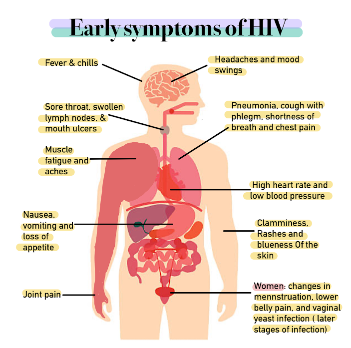 A diagram including the early symptoms of HIV ( Human Immunodeficiency Virus) and where it appears in the body.